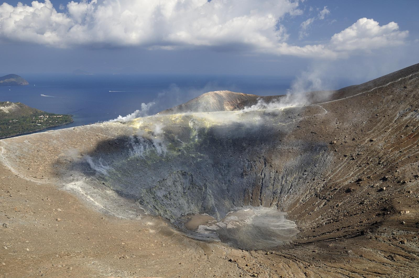 A journey to the Aeolian islands. Crater of Vulcano Island, Italy.